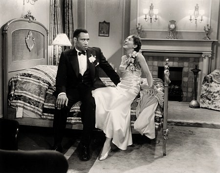 Paul Robeson & Fredi Washington in The Emperor Jones - cropped screenshot